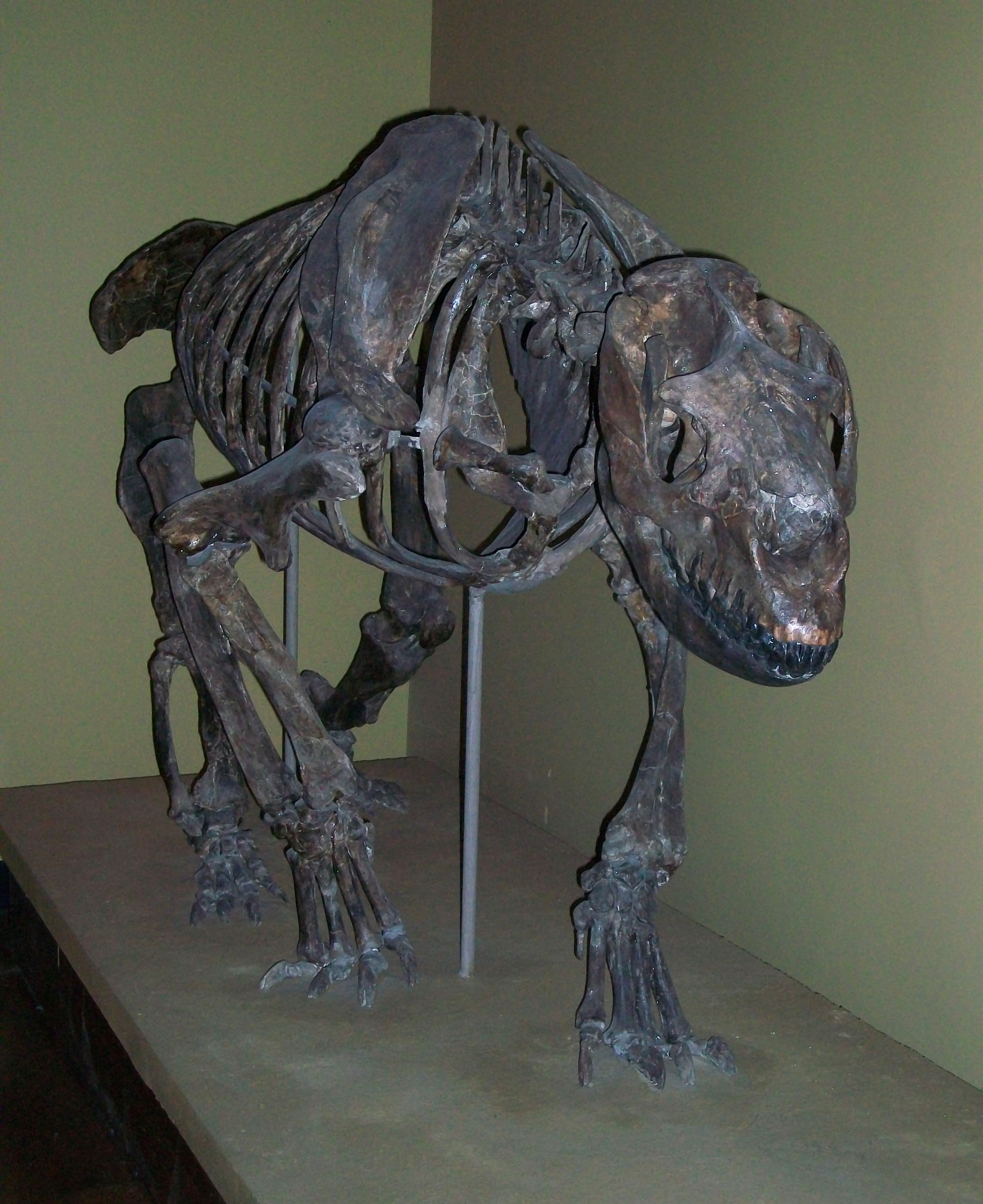 Mounted skeleton of Homalodotherium cunninghami in the Field Museum of Natural History.